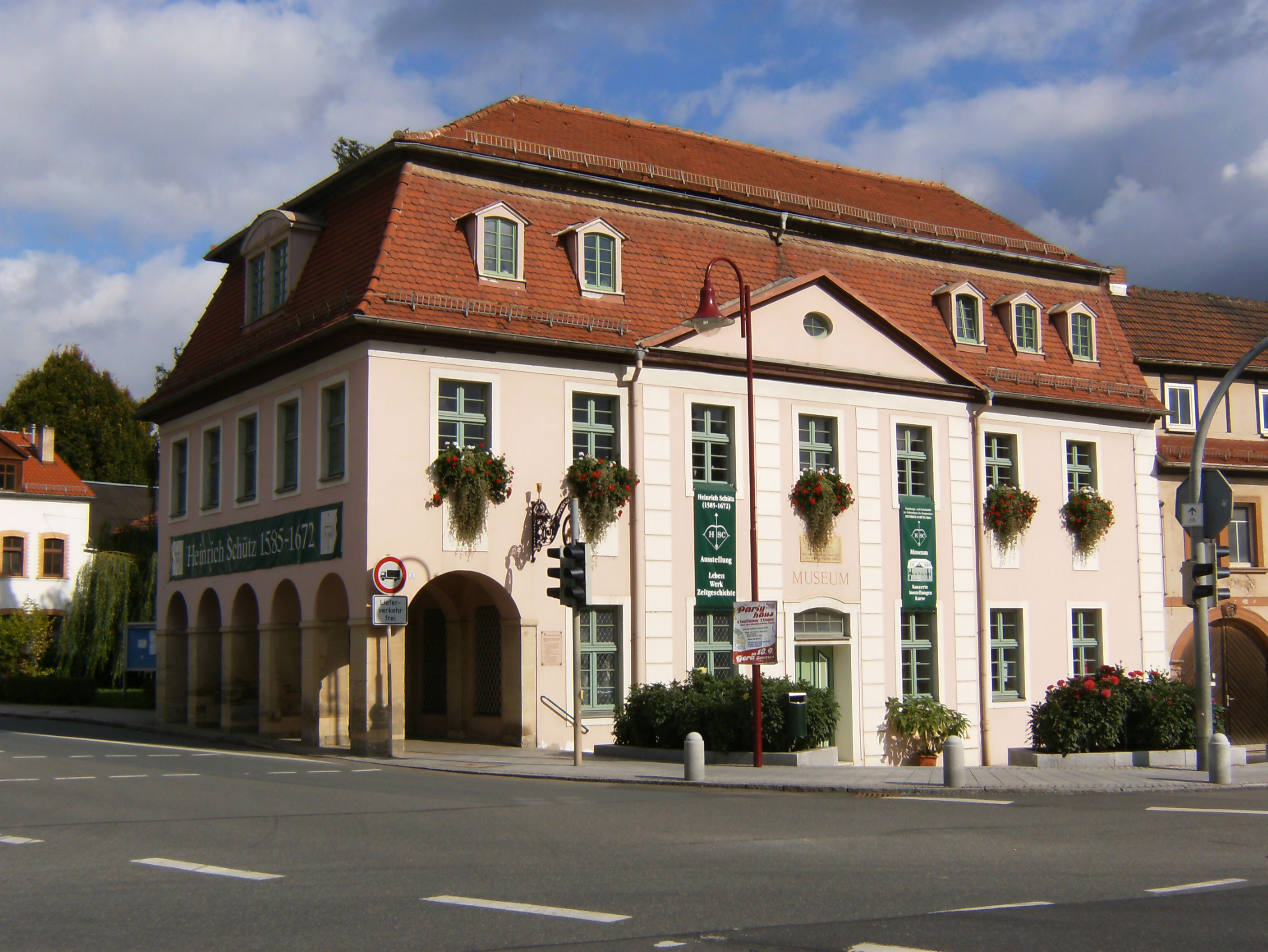 Heinrich-Schütz-Museum "Haus zum Kranich" in Bad Köstritz (Thuringia), birthplace of the composer Heinrich Schütz.